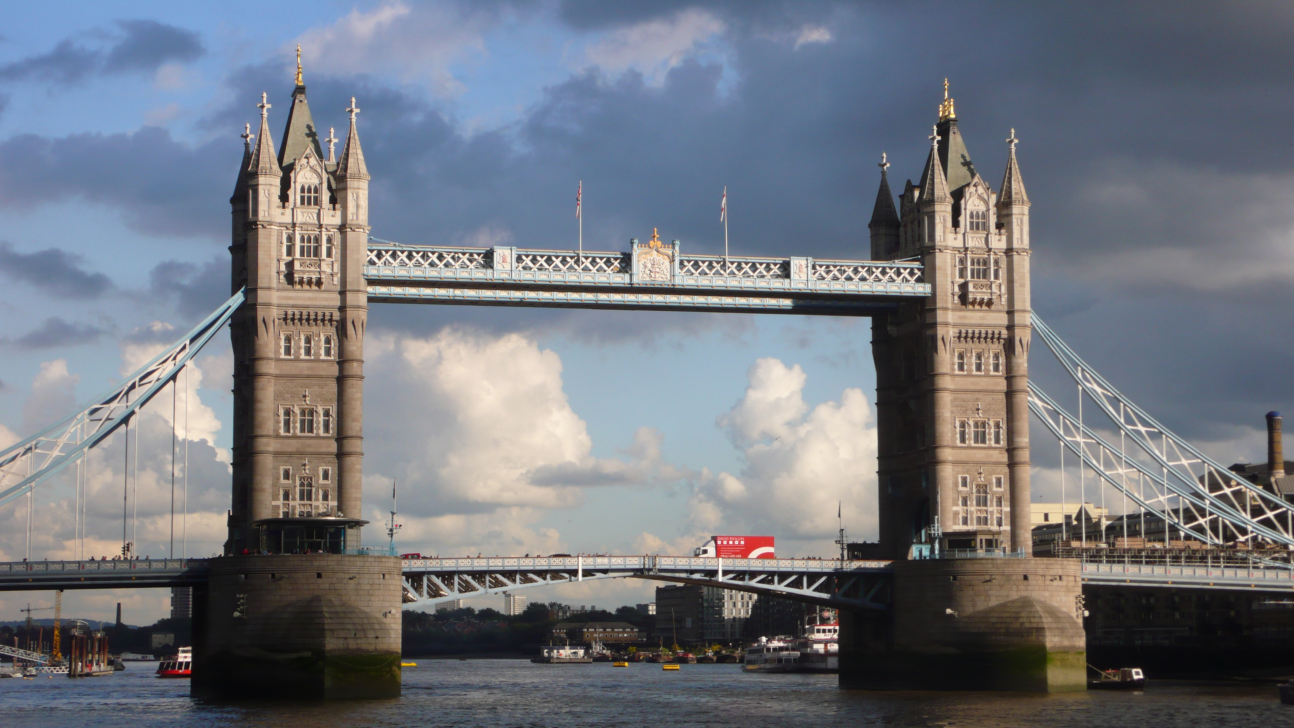 Tower bridge